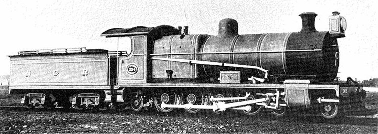 SAR Class 1B (ex NGR No. 319-324), Converted from 4-8-0 to 4-8-2 in 1906 (world's first Mountain locomotive) and reconverted back to 4-8-0 in circa 1926-28